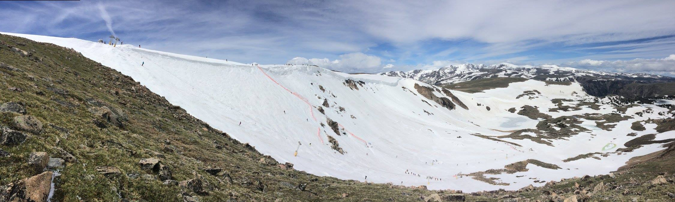 The Beartooth Basin Ski Area ( which is located on the Shoshone National Forest at the summit of beautiful Beatooth Pass, hosted the 1st annual MRA Summer Shredfest June 16-18. The Shredfest was a 3-day event focused on community, competition and culture. The event included a SheJumps "Get the Girls Out" event. Thank you to the over 70 competitors who came out to make this event a success! We look forward to future Shredfest events!